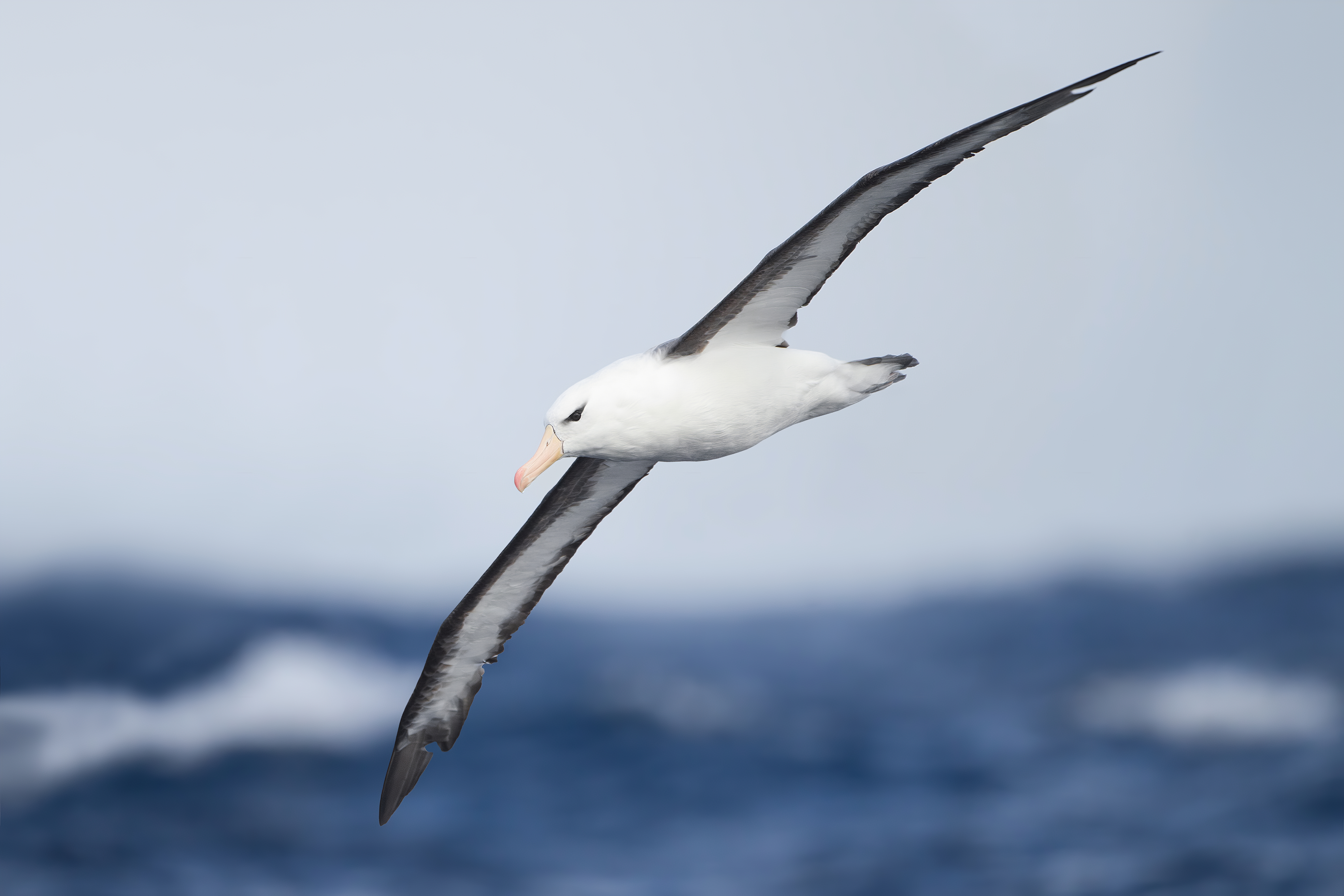 Black-browed Albatross (Thalassarche melanophrys) in flight, East of the Tasman Peninsula, Tasmania, Australia